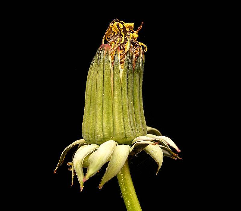 Taraxacum sect. Ruderalia (Syn. Taraxacum officinale agg.)